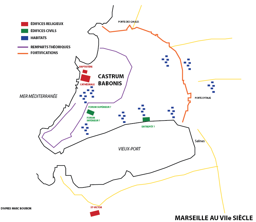 Marseille au VIIe siècle